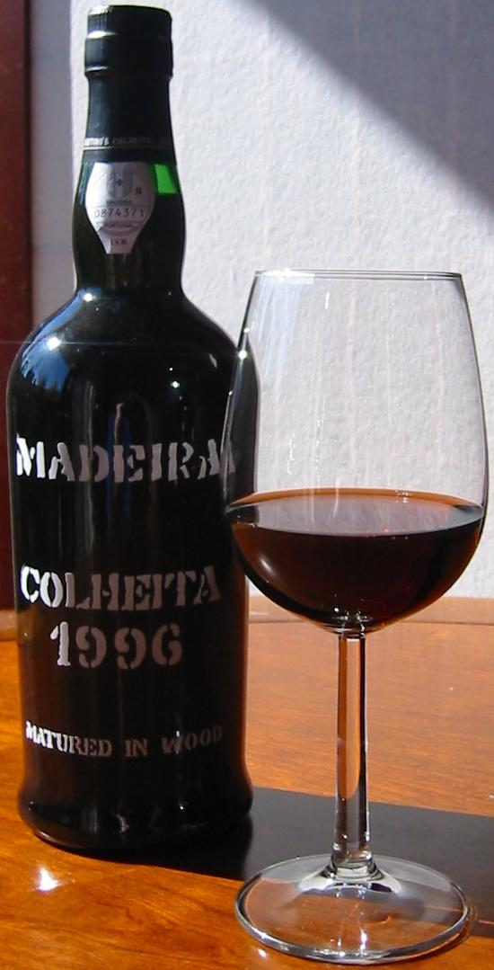 Glass and bottle of Madeira wine from Vinhos Justino Henriques. Colheita 1996 "Fine rich" (Malvasia)